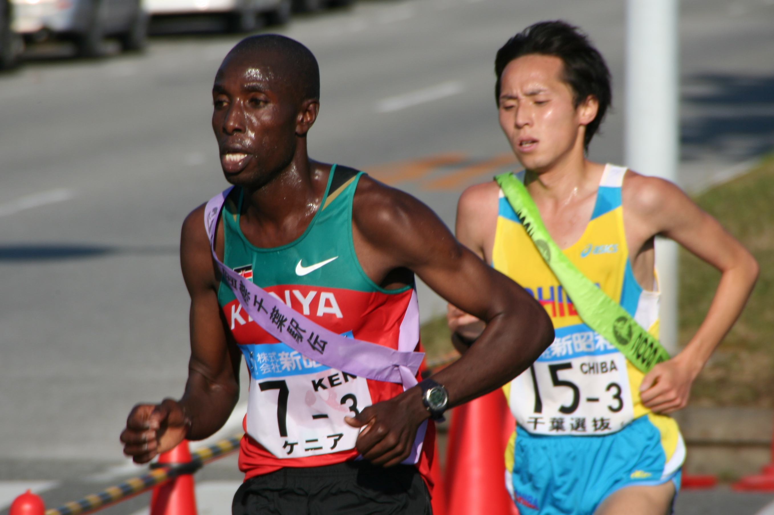 5th: MAYAKA, Boash Ongaga (KEN), 6th: YAMAGUCHI,Syota (CHIBA)